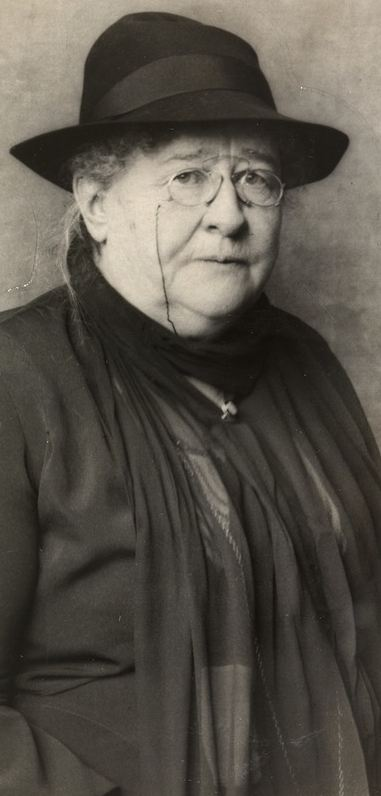 Norwegian painter Signe Scheel (1860–1942), photograph about 1930.